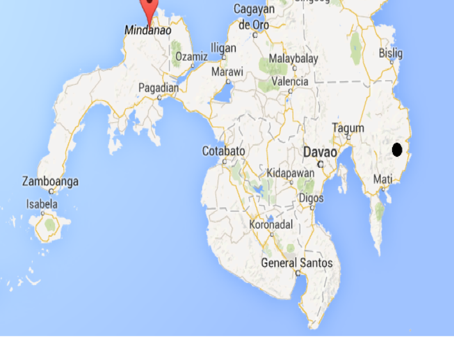 Distribution of Rafflesia verrucosa on Mindanao (Philippines)